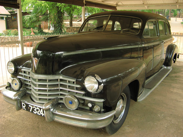 The car Jan Smuts used when he was the Prime-Minister of the Union of South Africa. Jan Smuts Museum, Irene, Pretoria.